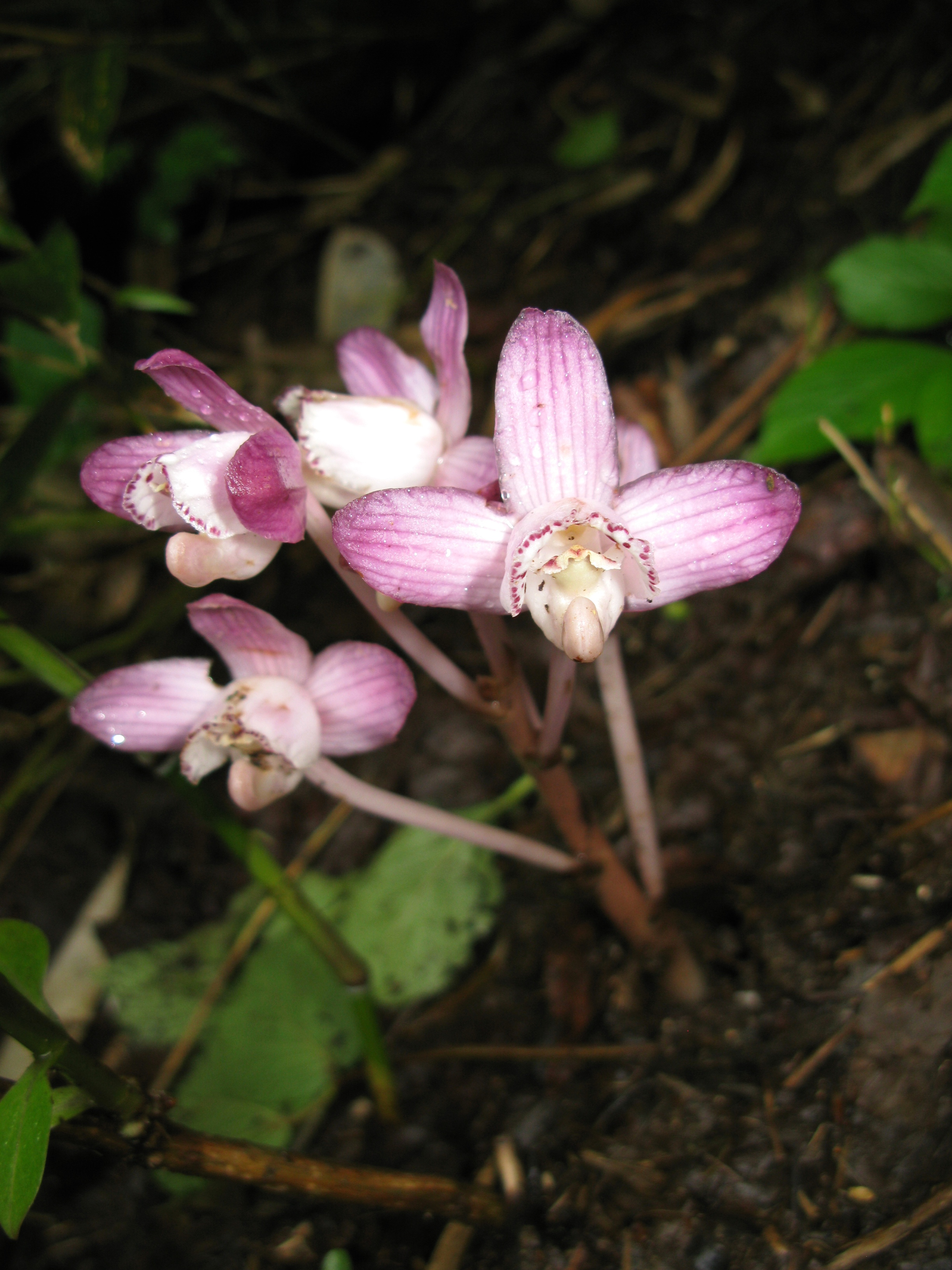 Yoania japonica, Mt. Bandai, Fukushima pref., Japan